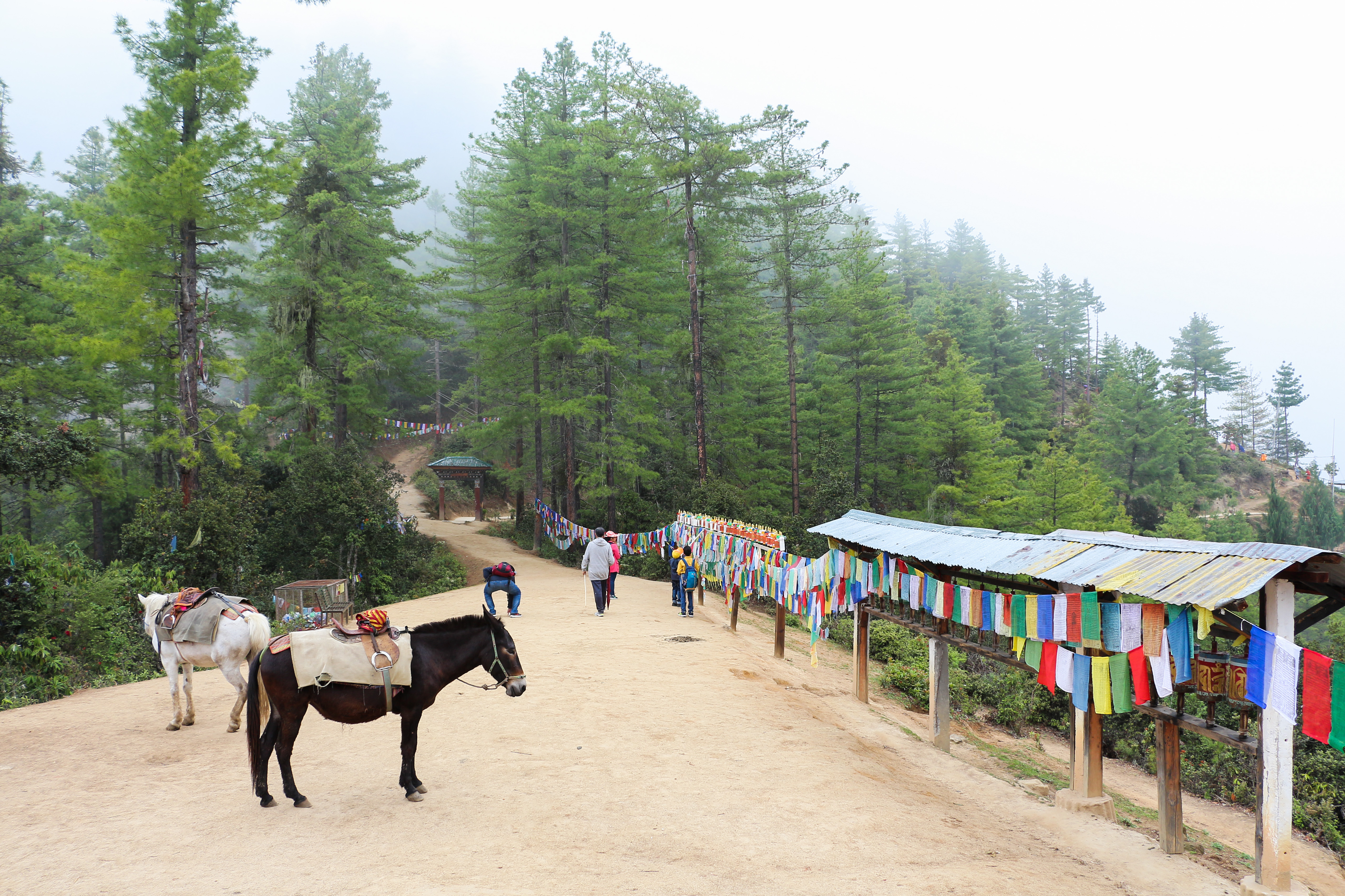 Paro Taktsang trail, Bhutan